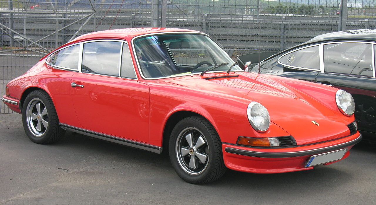 Red Porsche 911 S. Photo taken on Nürburgring.